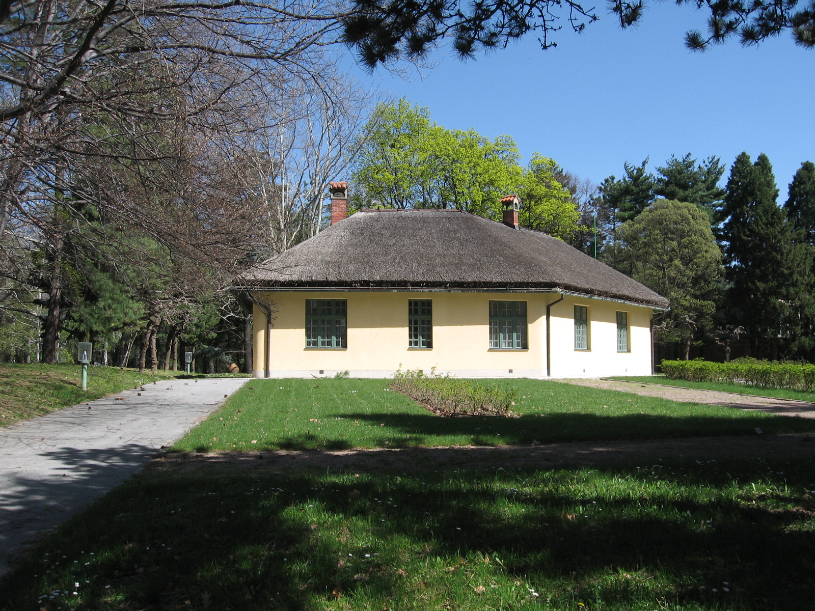 Slamnata kuća in Royal Compound, Belgrade